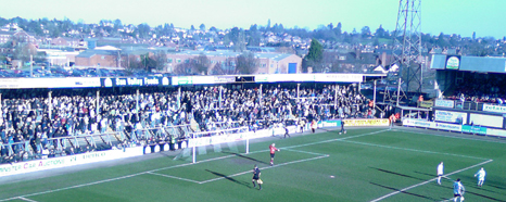 I took this photo on my mobile phone.